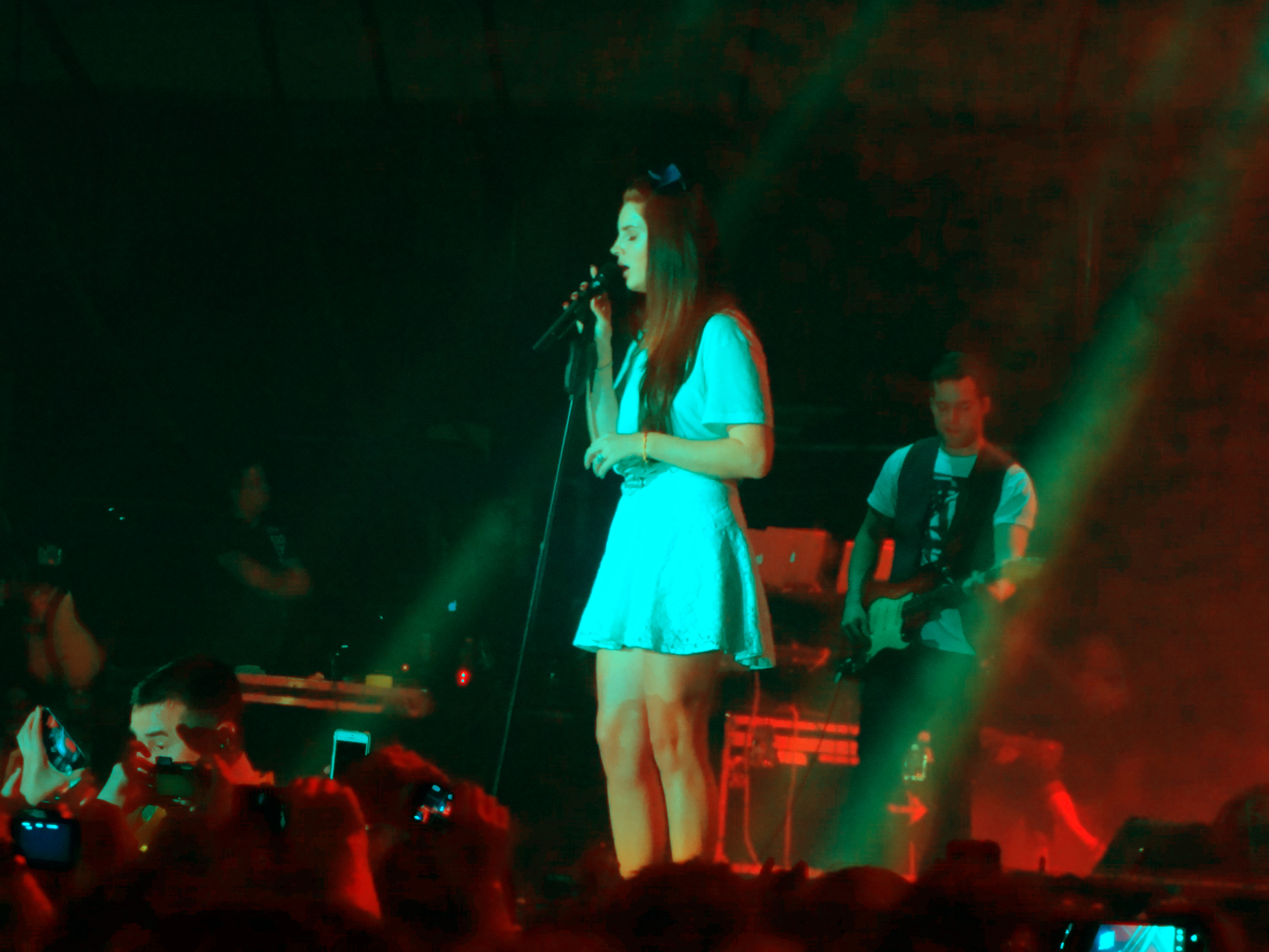 Lana Del Rey in Santiago, Chile